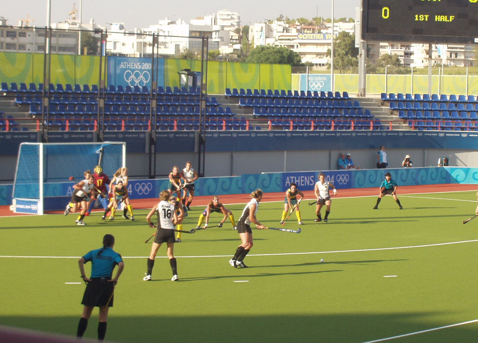 Field hockey at the 2004 Summer Olympics